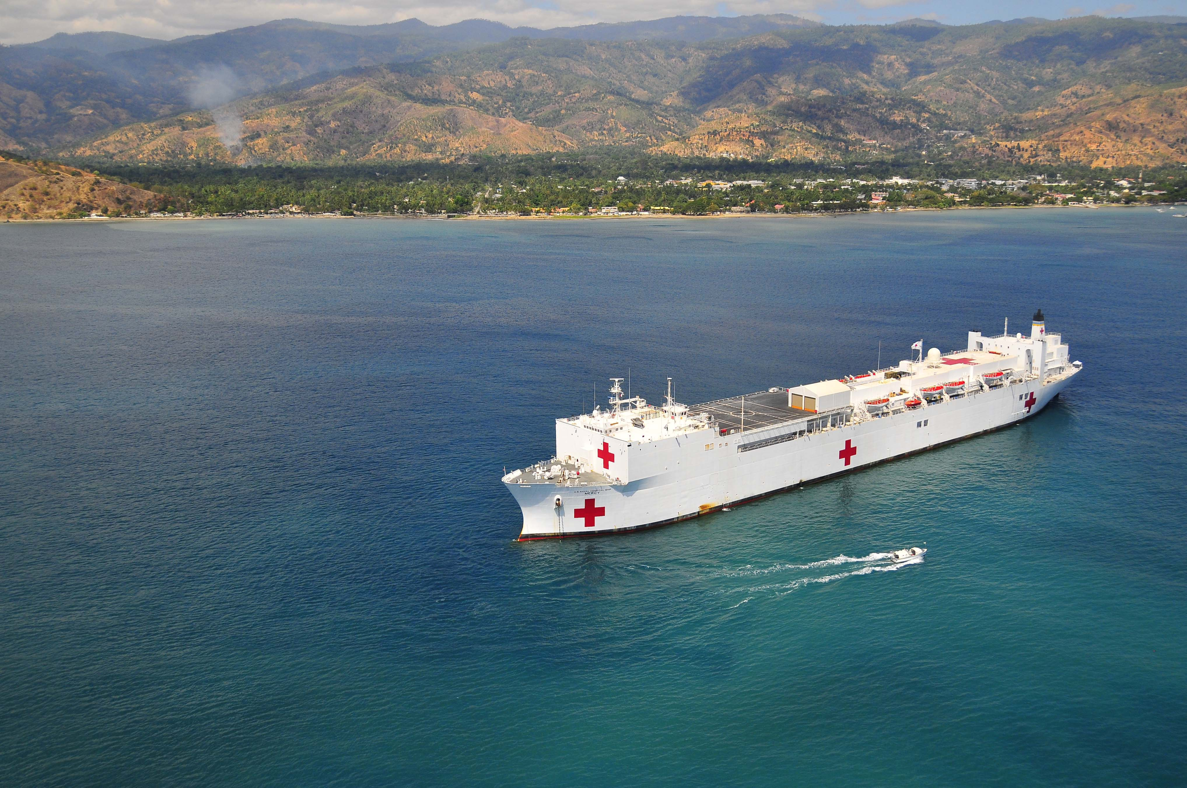 The Military Sealift Command hospital ship USNS Mercy (T-AH 19) sits anchored off the coast of Dili, Timor Leste, July 19, 2008. Mercy is deployed in support of Pacific Partnership 2008, a humanitarian assistance mission to Southeast Asia that includes specialized medical care and various construction and engineering projects.